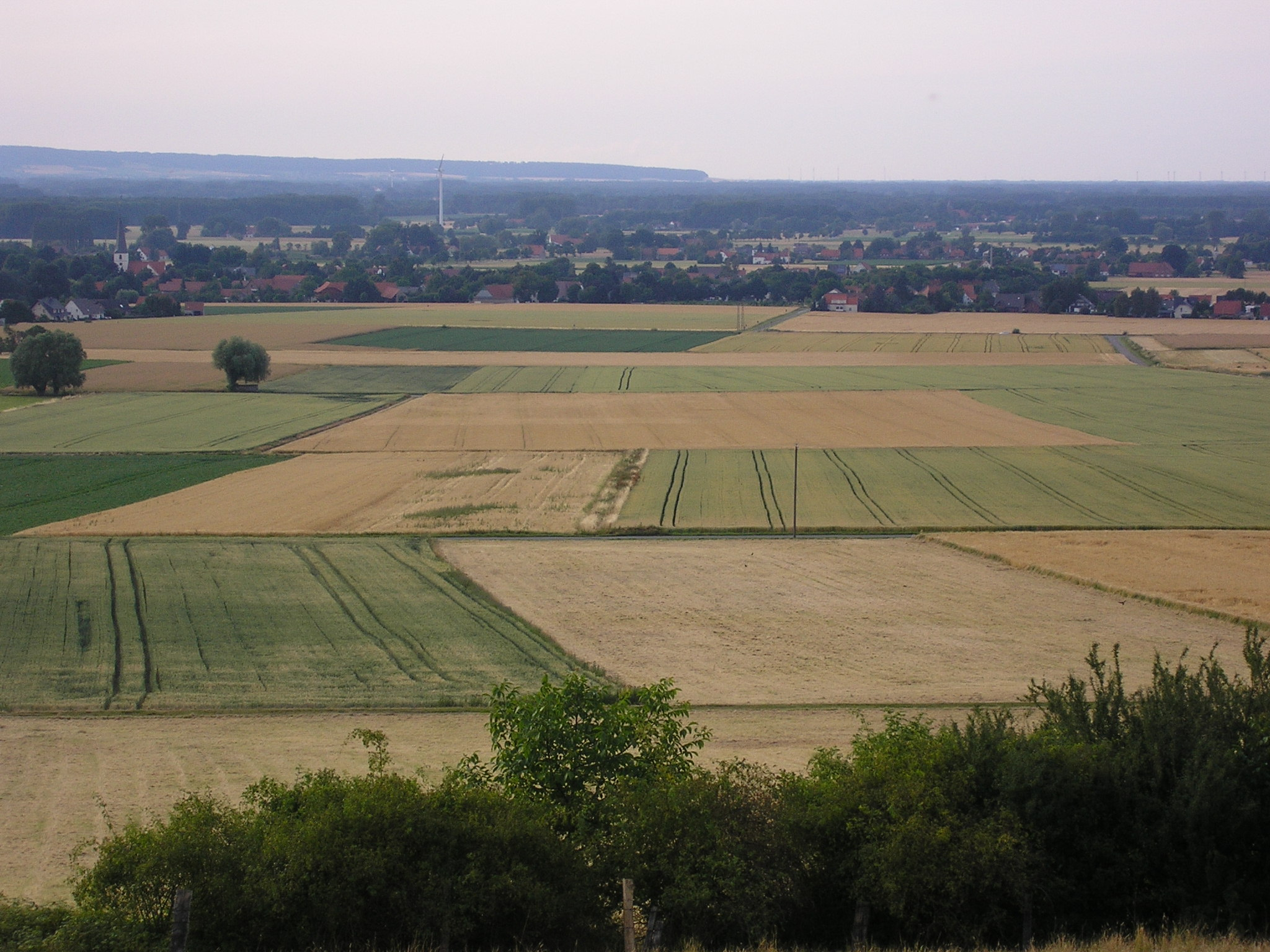 Northgerman Lowlands as it appears from the northern slope of Wiehengebirge mountains near Lübbecke, Germany.